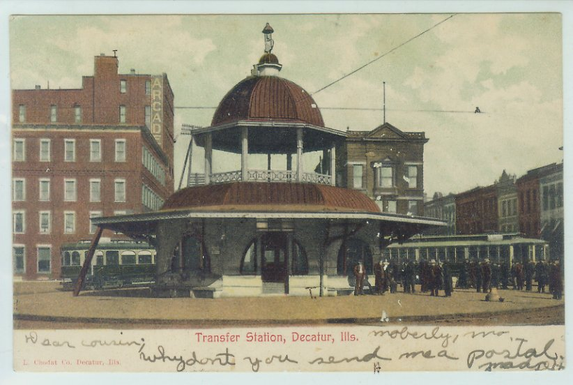 Postcard: Trolley transfer station, Decatur, Illinois, 1906 postmark Description: Caption: "Transfer Station, Decatur, Ills."; address side of postcard also shown on separate Web page: along left side, printed along edge: "A. S. St. L. Leipzig Halberstadt, No. 2638"; undivided-back style postcard